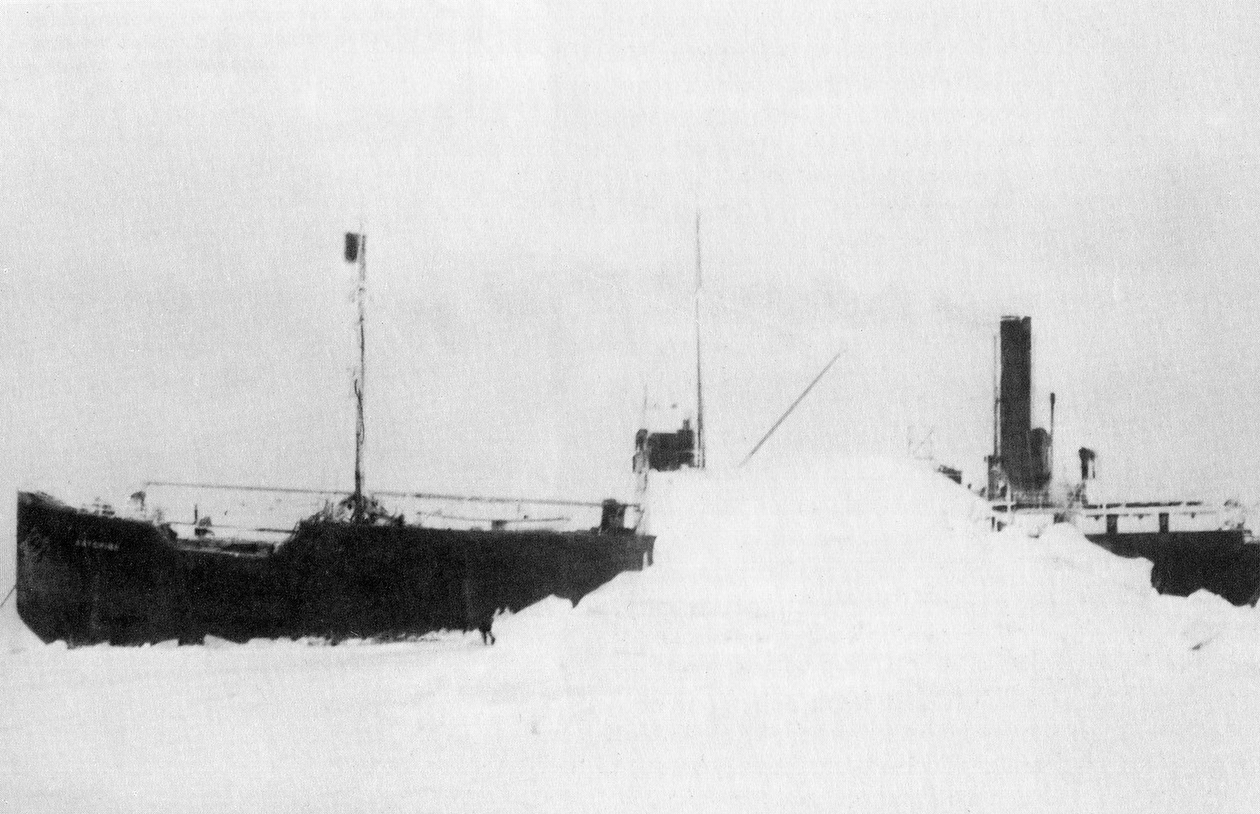 Cargoship Baychimo somewhere in Canada.